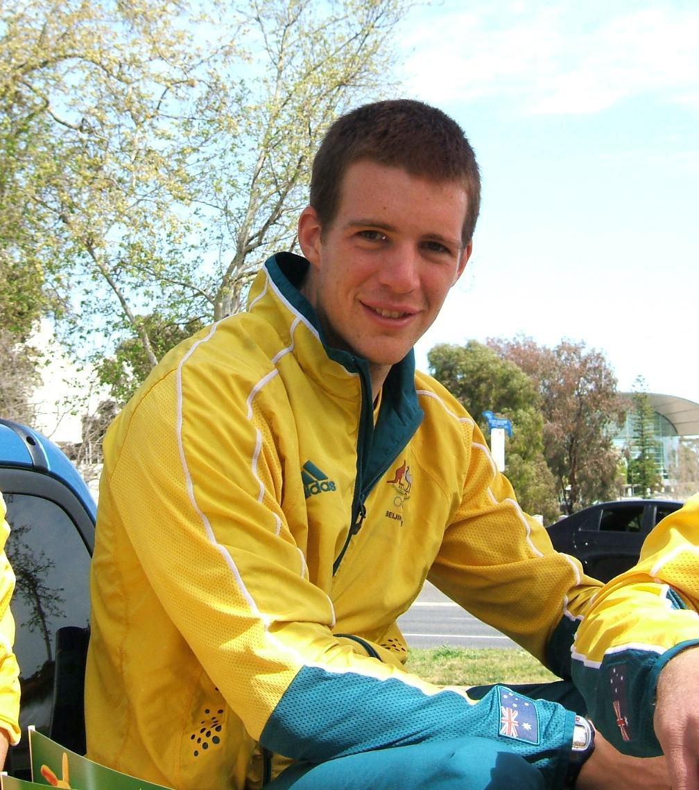 Chris Morgan at the 2008 Olympic homecoming parade in Adelaide